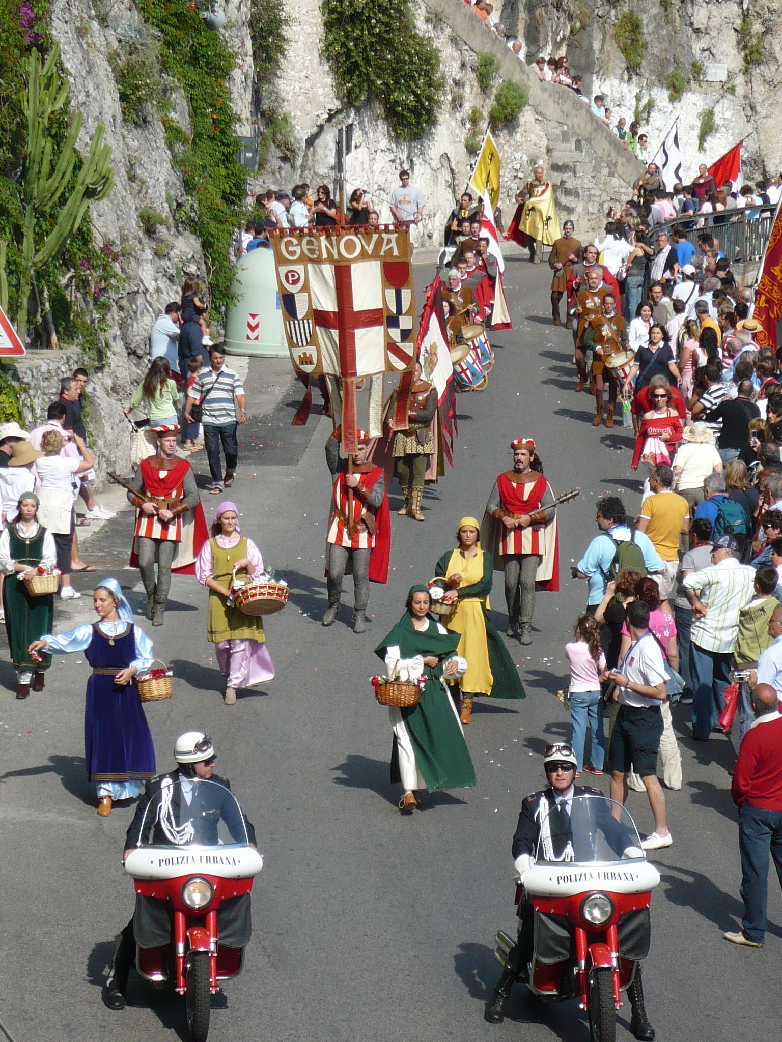 Historical Procession of Genoa during the 53° Regatta of the Ancient Italian Maritime Republics. Amalfi, the 8th of June 2008.